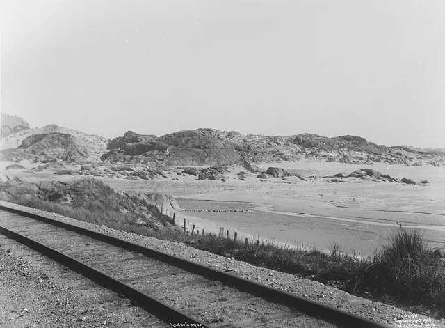 The Jæren Line near Ogne, in Hå, Norway.